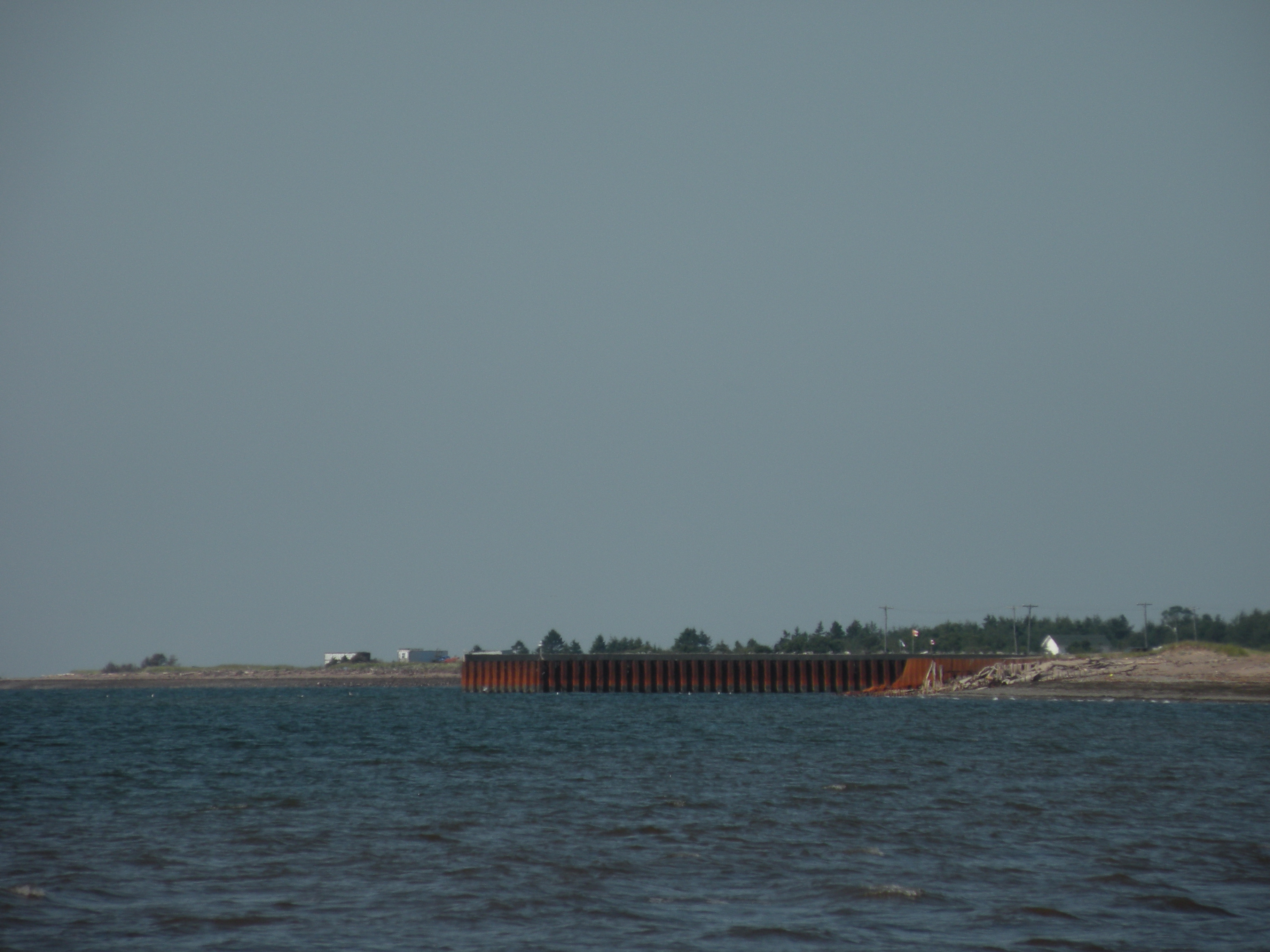 Port of Le Goulet, New Brunswick, Canada.